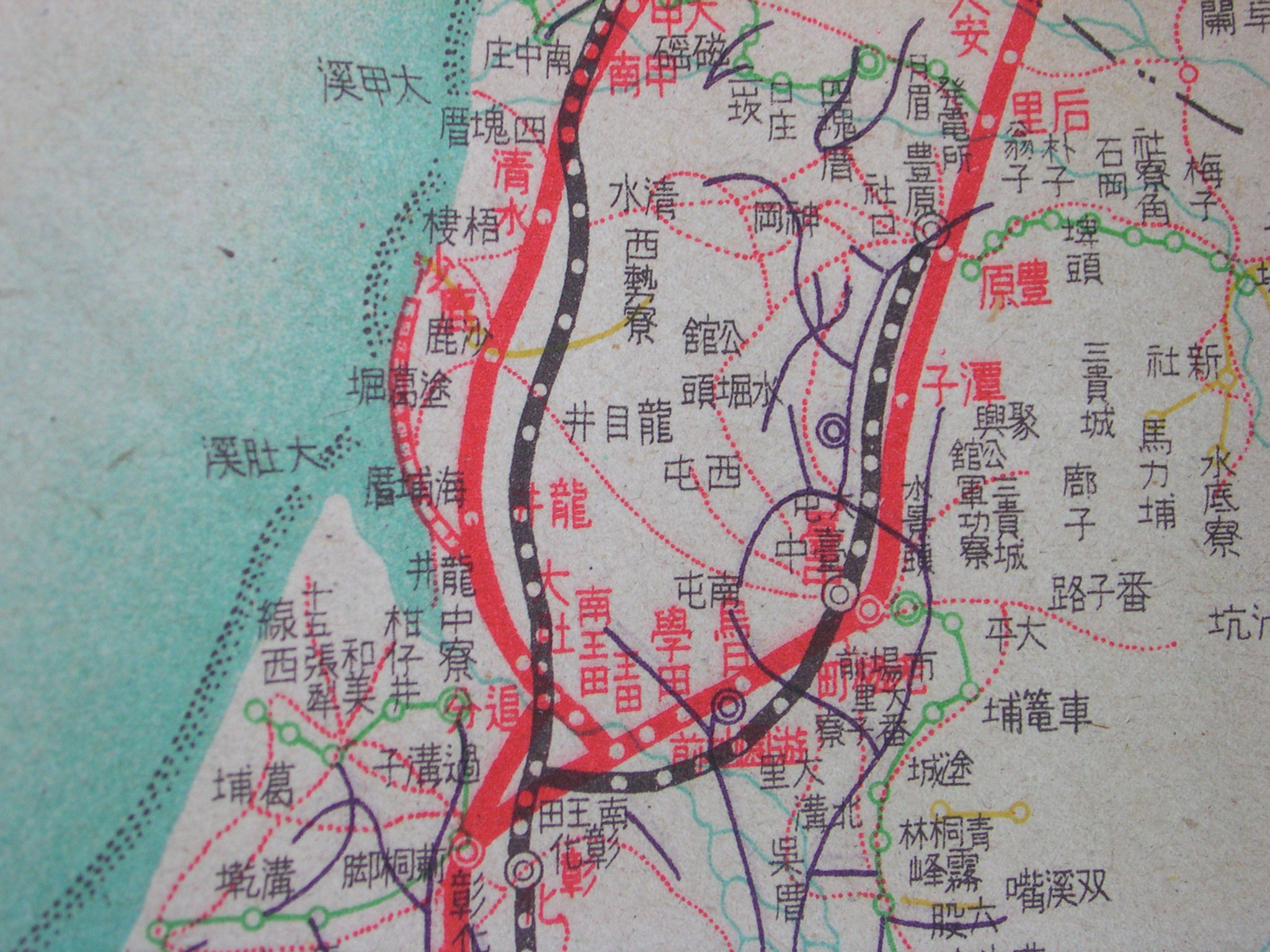 The map of NITAKA PORT(新高港) LINE, Taiwan, Japan